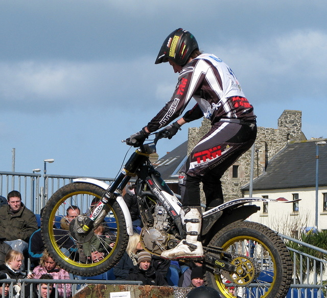 2008 SPEA FIM European Trial Motorcycle Championship, Bangor [5] See also 754742; here Alexz Wigg (UK, Montesa) attacks the course at the 'McKee Clock Arena'.